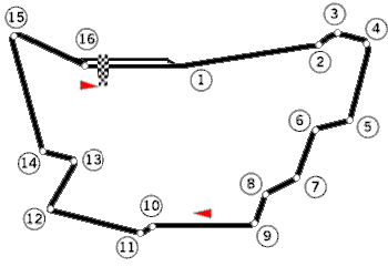 Lwow Grand Prix Circuit